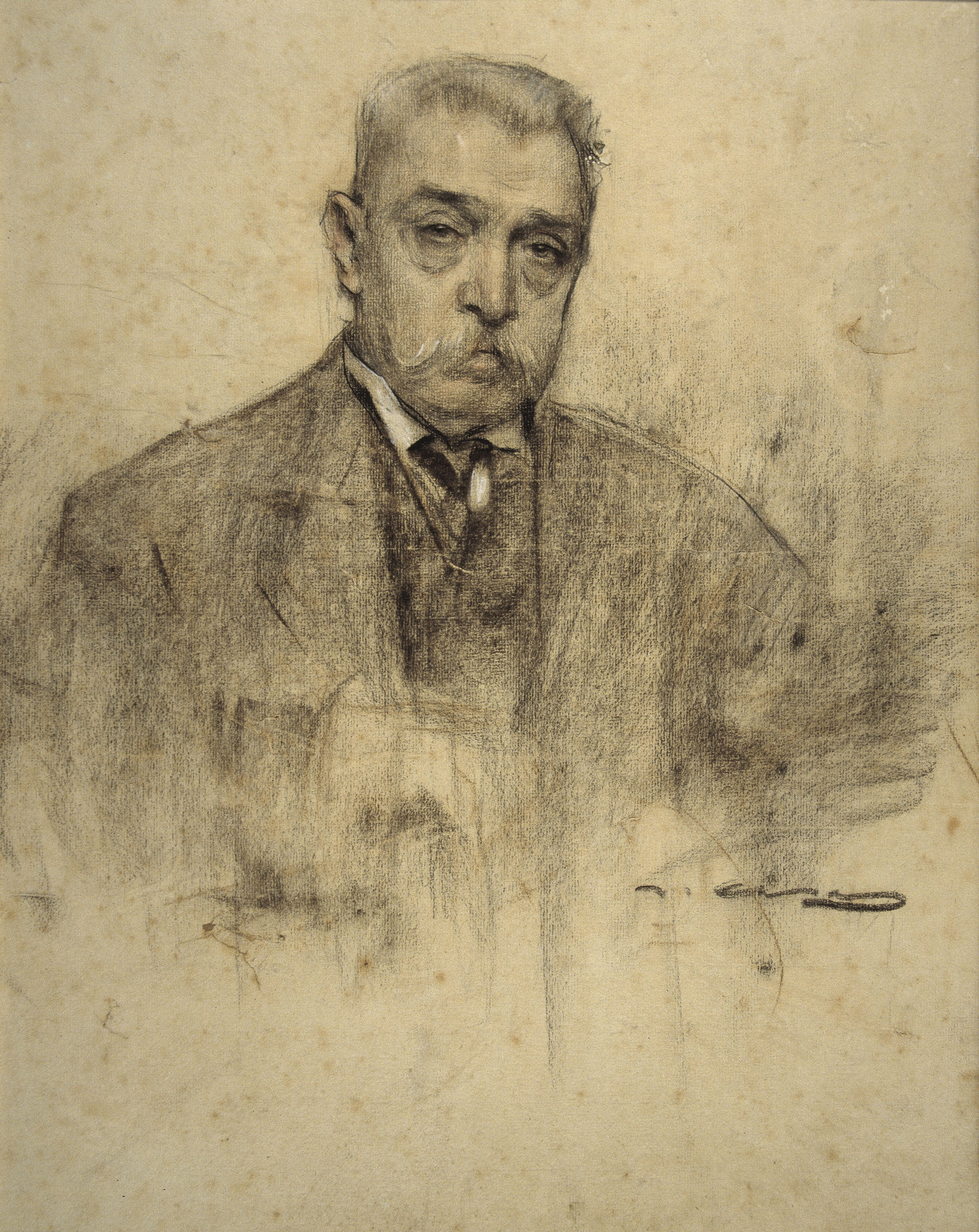 Portrait by Ramon Casas conserved at MNAC in Barcelona. Imagen 003